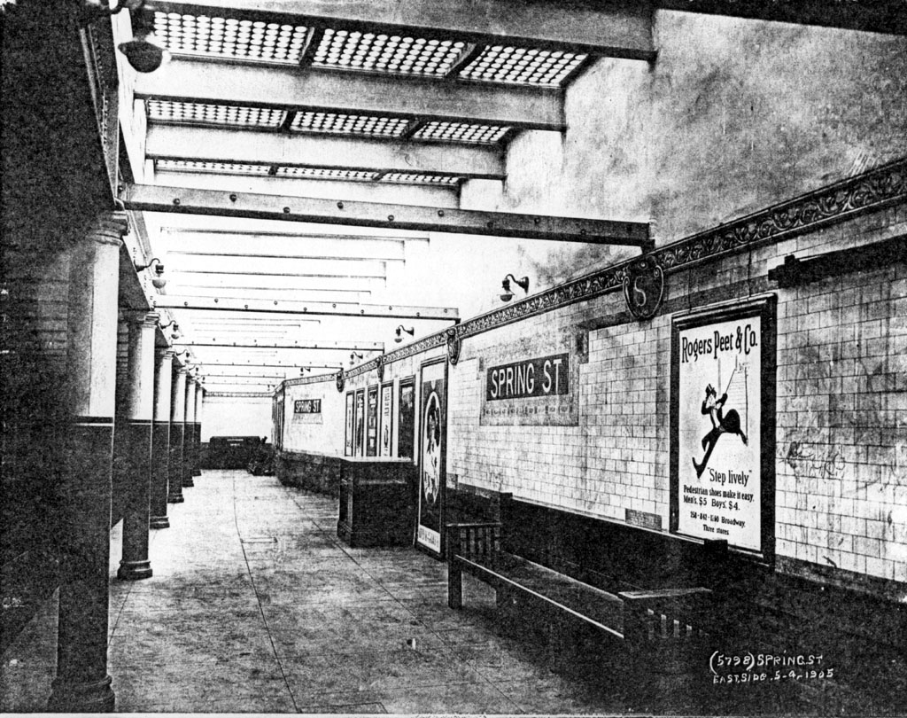 Spring Street station (IRT Lexington Avenue Line), New York City Subway